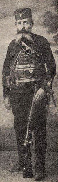 serbian revolutionary